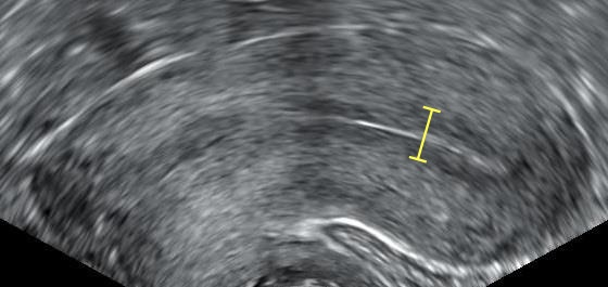 A triple-line endometrium seen in the uterus of a 36 year old female.